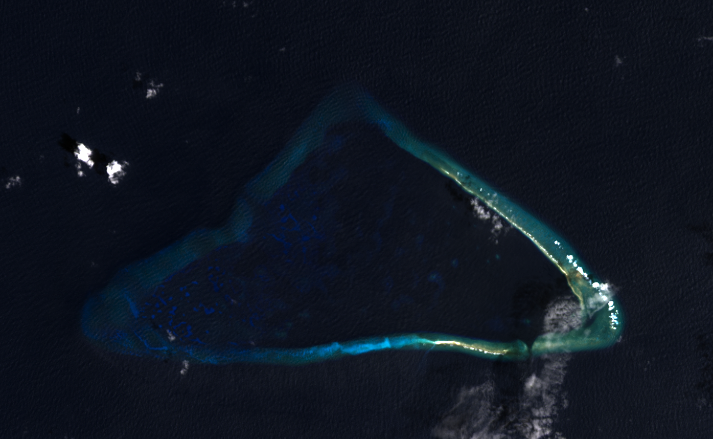 Composite "true color" multispectral satellite image of Kingman Reef. NASA Landsat 8 OLI bands used were 4 (red), 3 (green), 2 (blue). Pan-sharpened with band 8. Manual color balance. Projection: UTM (zone 3), WGS84. Imagery courtesy NASA/USGS.